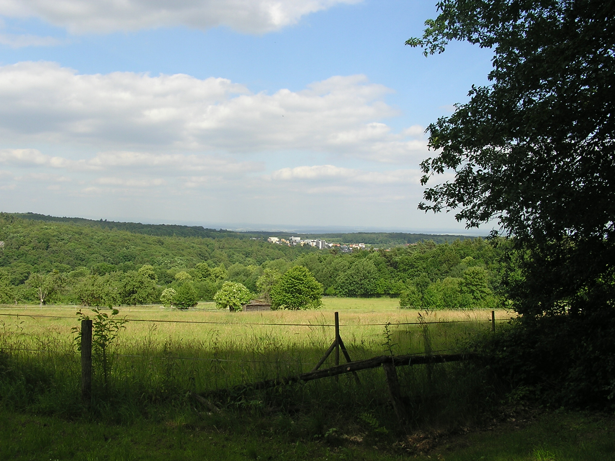 Friedrichsdorf-Koeppern, photographed from the “Bornberg”. The landscape in the background is the Wetterau.